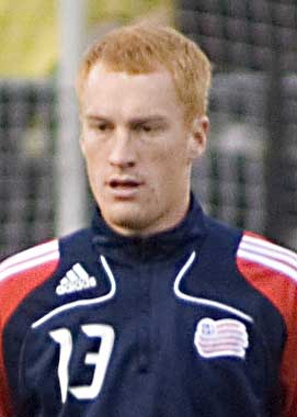 I shot this photo of Jeff Larentowicz as warmed by prior to the Columbus Crew/ Revolution game on October 25, 2009.